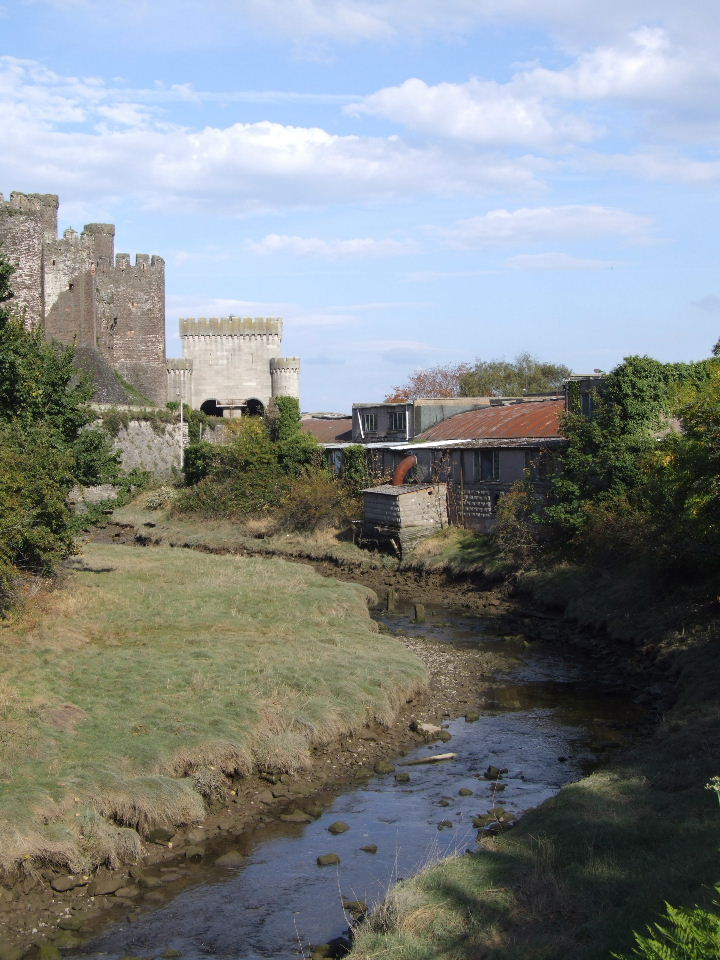 Afon Gyffin river in Gyffin, Conwy County, Wales, with Conwy Castle.